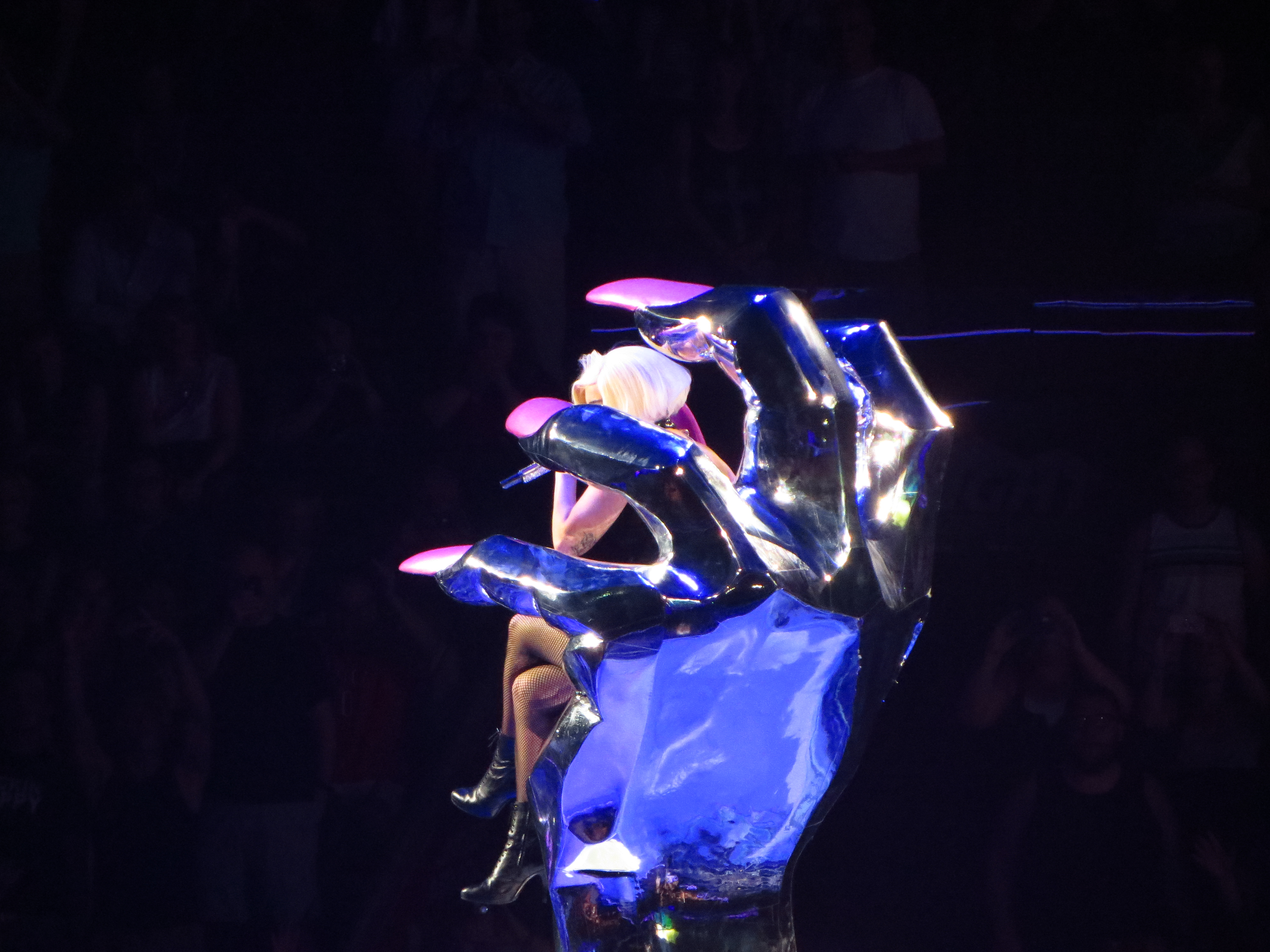 Lady Gaga, ARTPOP Ball Tour, Bell Center, Montréal, 2 July 2014 (51) Gaga performing on ArtRave: The Artpop Ball tour